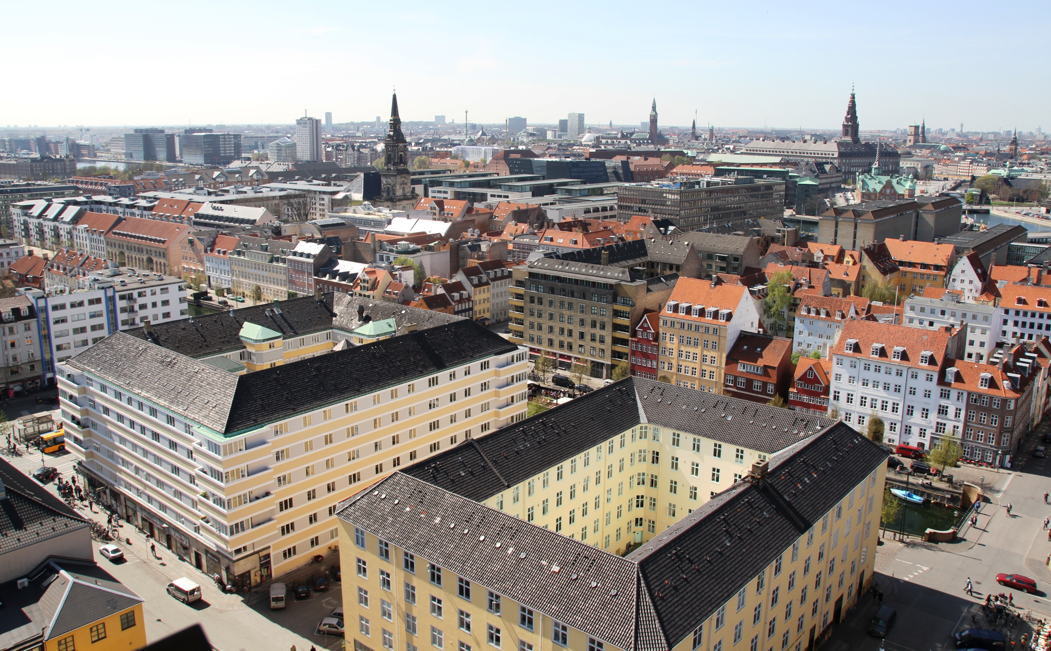 Image from Christianshavn, the eastern, naval quarters of old Copenhagen - on the northwestern part of the island Amager. In the background is Slotsholmen with Christiansborg castle.